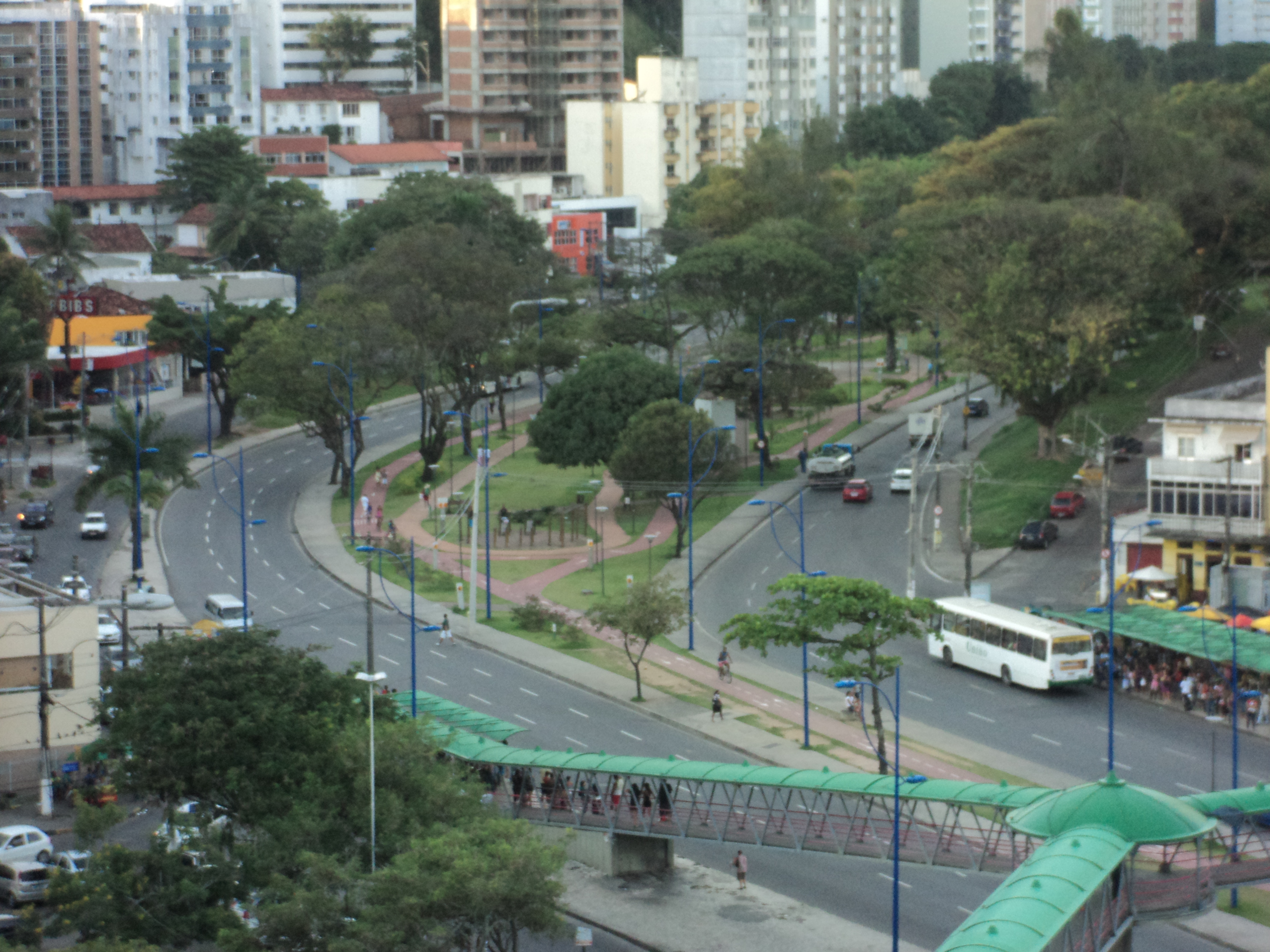 Centenário Avenue. Salvador, Brazil.